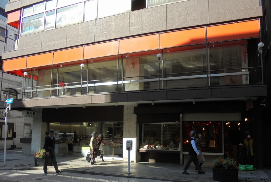 KIKU-YA (喜久家洋菓子舗), in the Motomachi, Yokohama